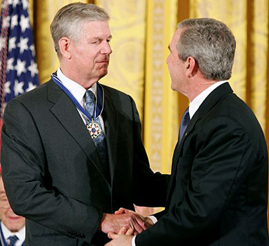 President George W. Bush shakes the hand of U.S. Air Force Gen. Richard Myers, recently retired Chairman of the Joint Chiefs of Staff, after presenting him with the Presidential Medal of Freedom during ceremonies Wednesday, Nov. 9, 2005, at the White House.